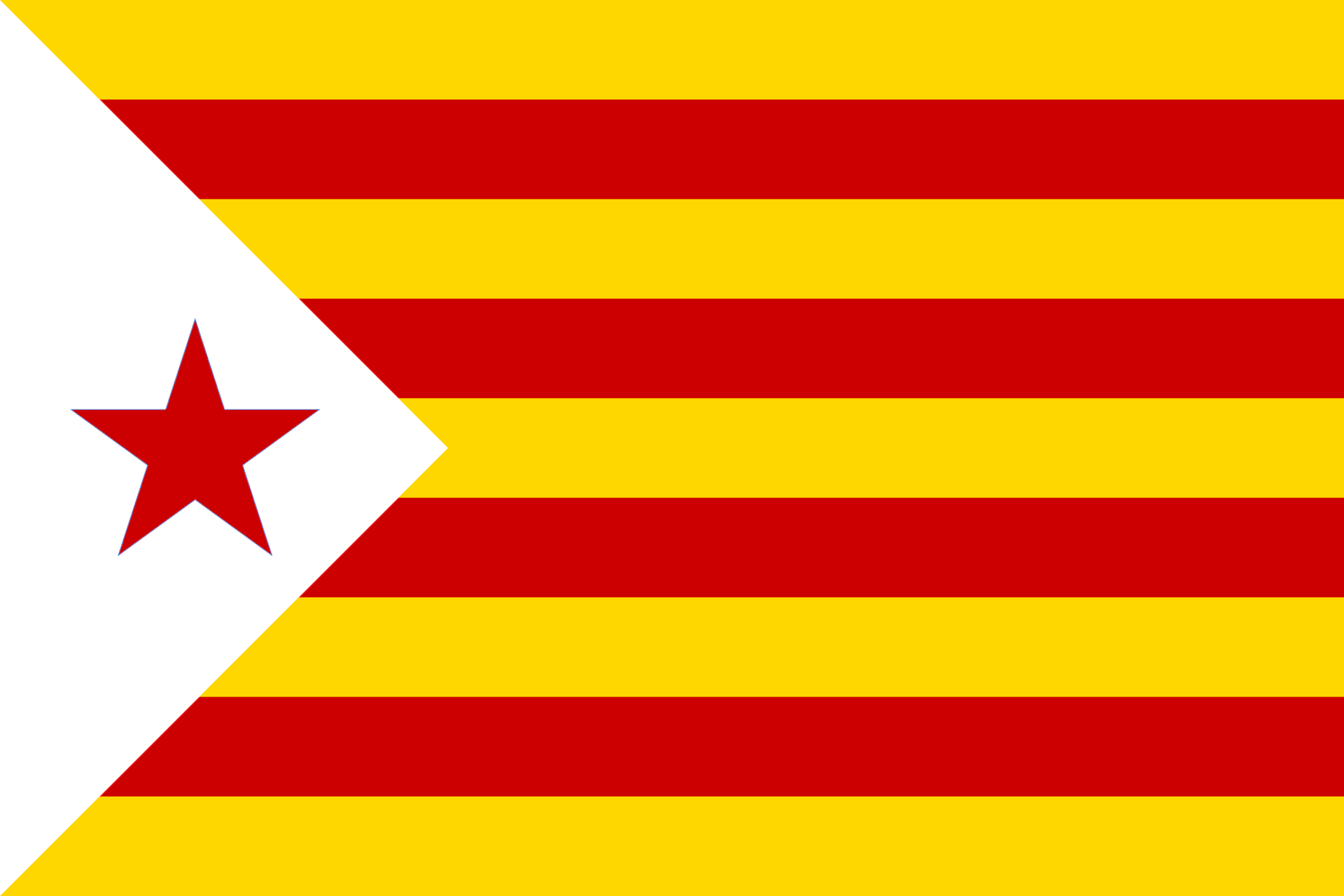 Old Estelada with the white triangle and the red star. Used by the PSAN.